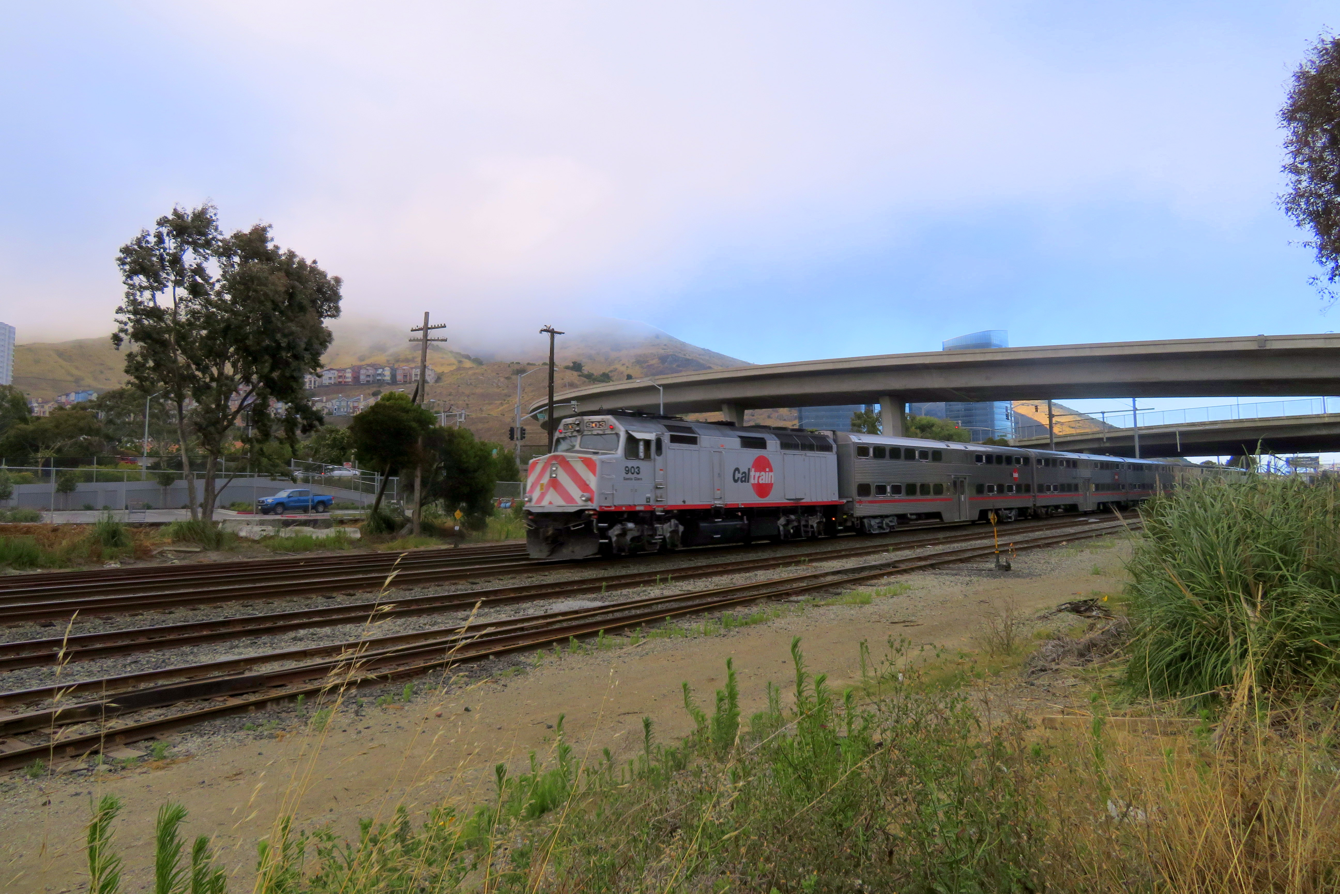 A northbound train passes the former site of Butler Road station in July 2018